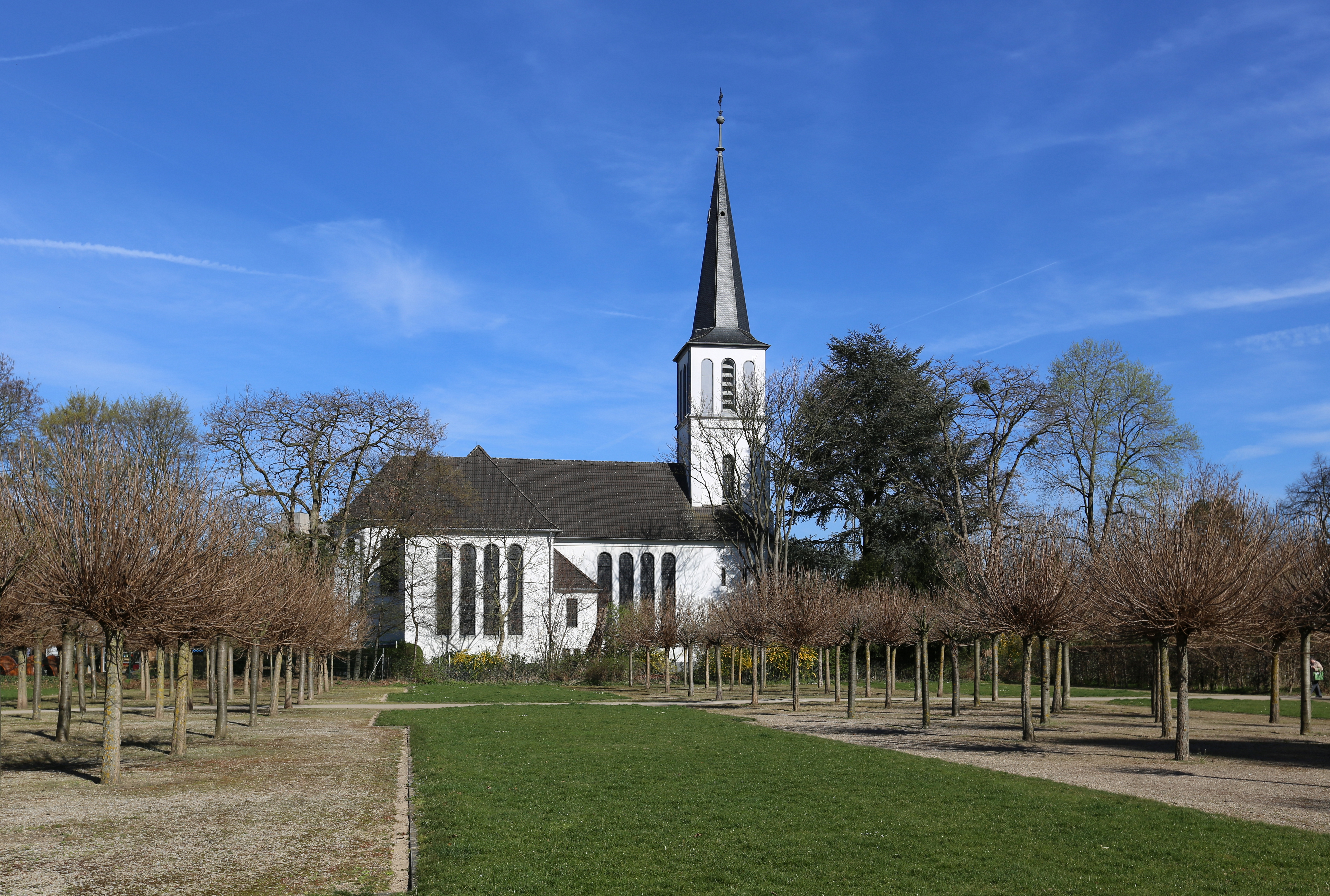 Jesus Christ Church Brühl, Germany.